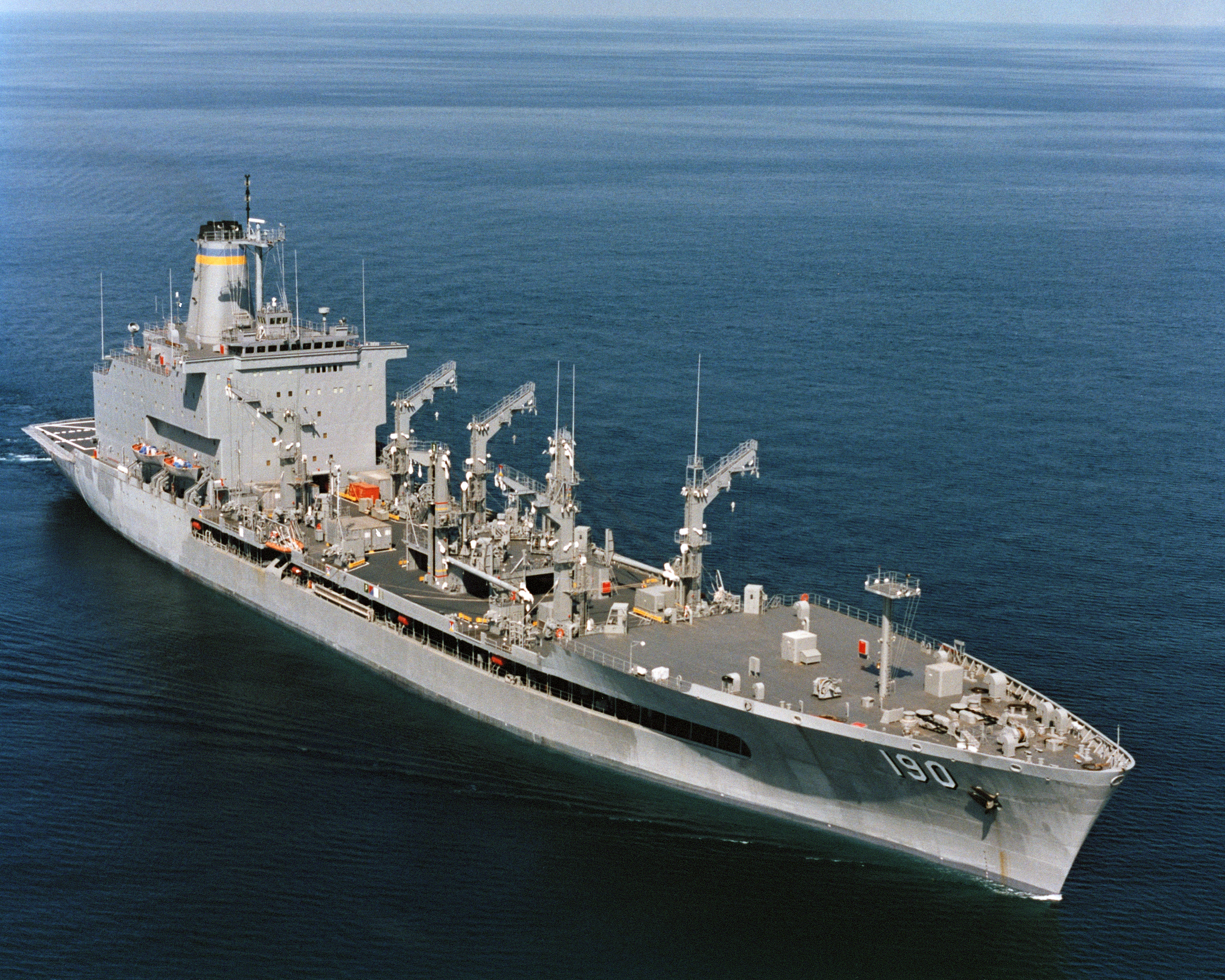 The U.S. Military Sealift Command fleet oiler USNS Andrew J. Higgins (T-AO-190) underway in the Gulf of Mexico on 15 September 1987.